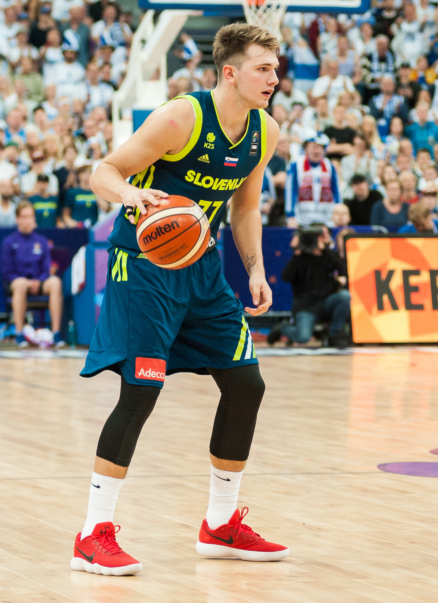 EuroBasket 2017 Group A game between Finland and Slovenia at Hartwall Arena in Helsinki, Finland.